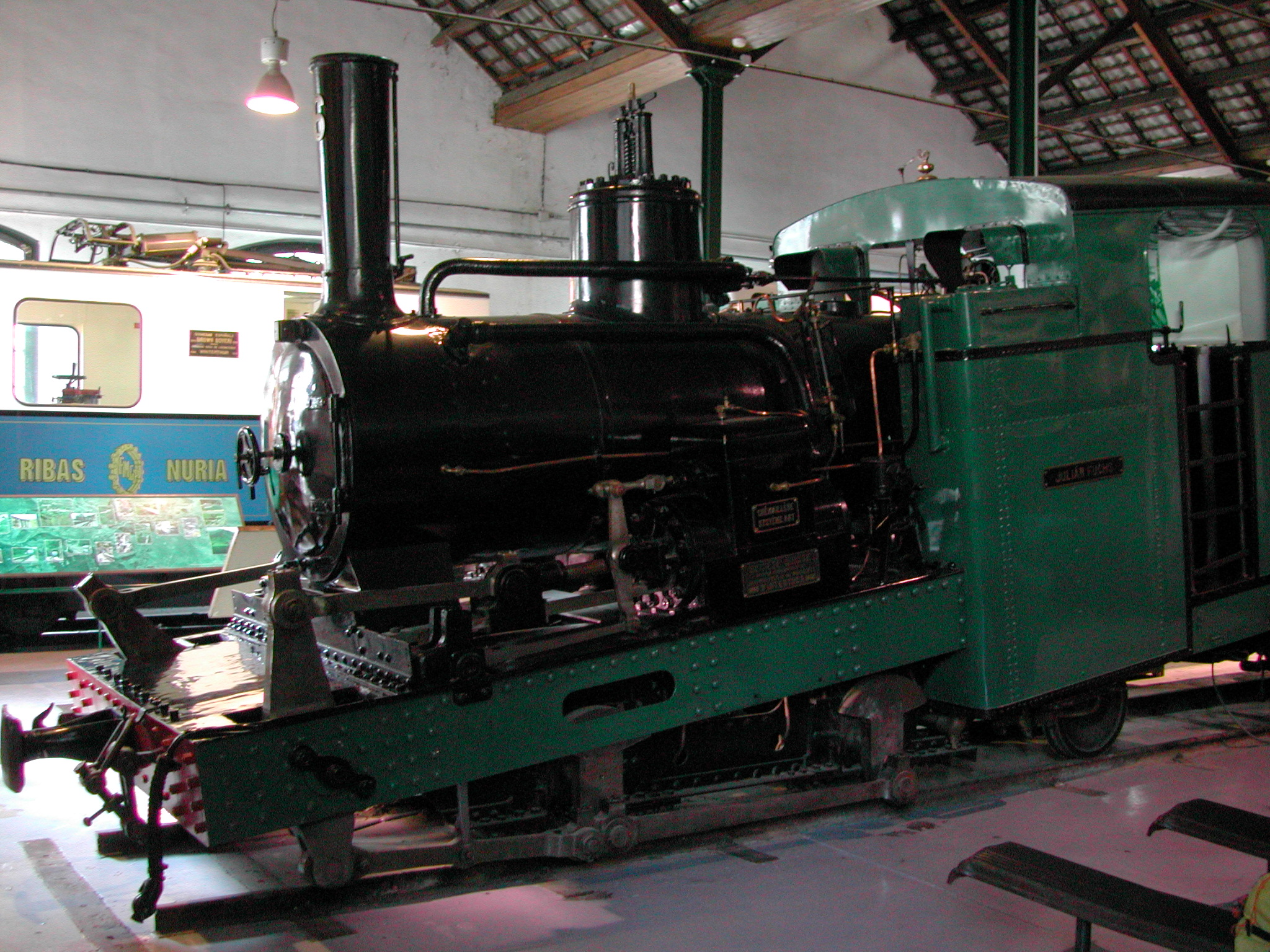 Steam locomotive 6 of Montserrat cog railway, built SLM 748/1892 for Gornergratbahn #8